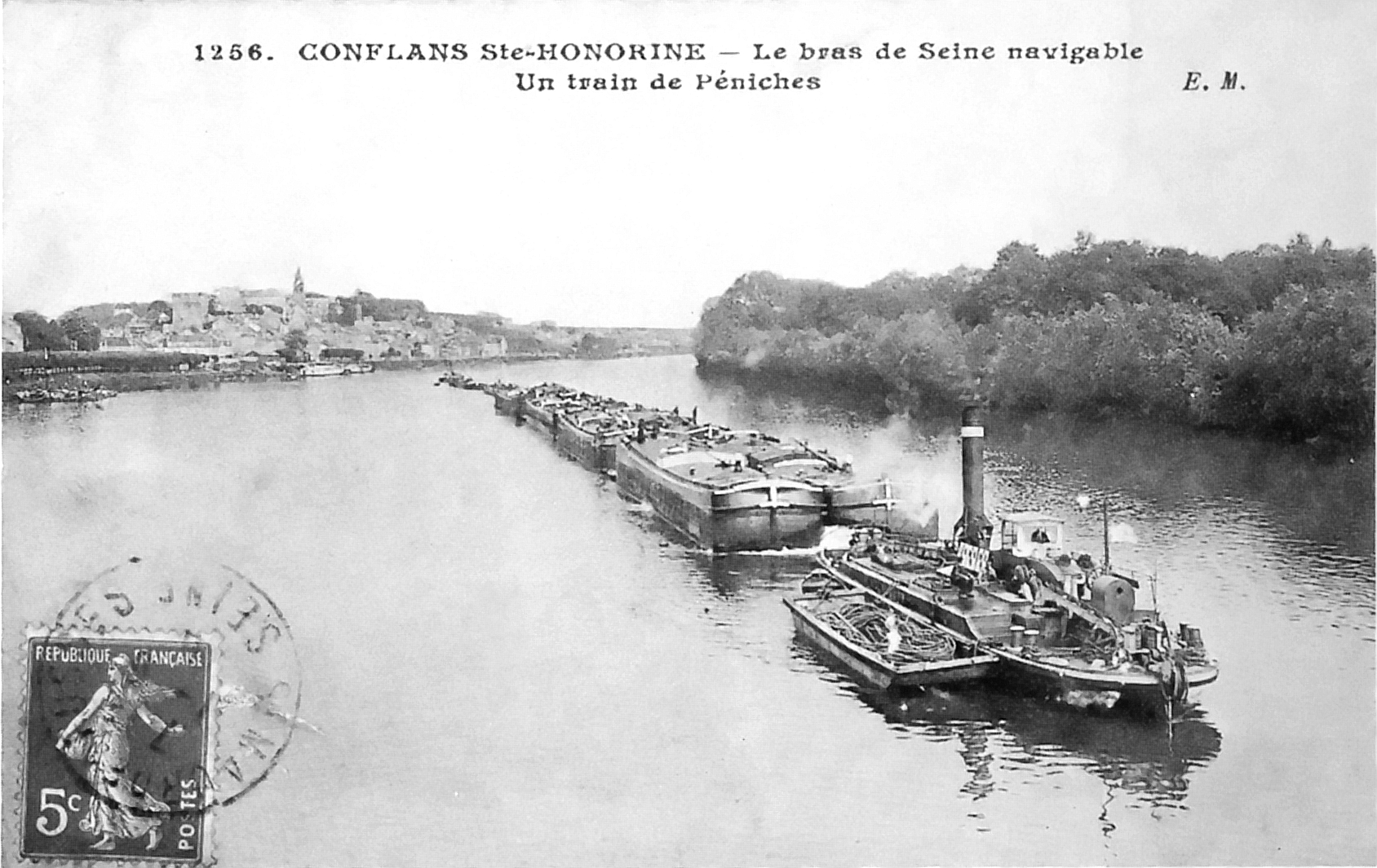 A chain-tug and its train of barges on the Seine river, early 20th century.